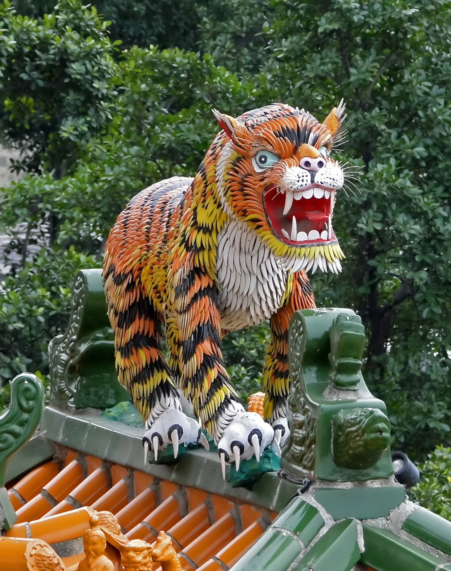 A tiger on Dragon and Tiger Pagodas, Kaohsiung, Taiwan